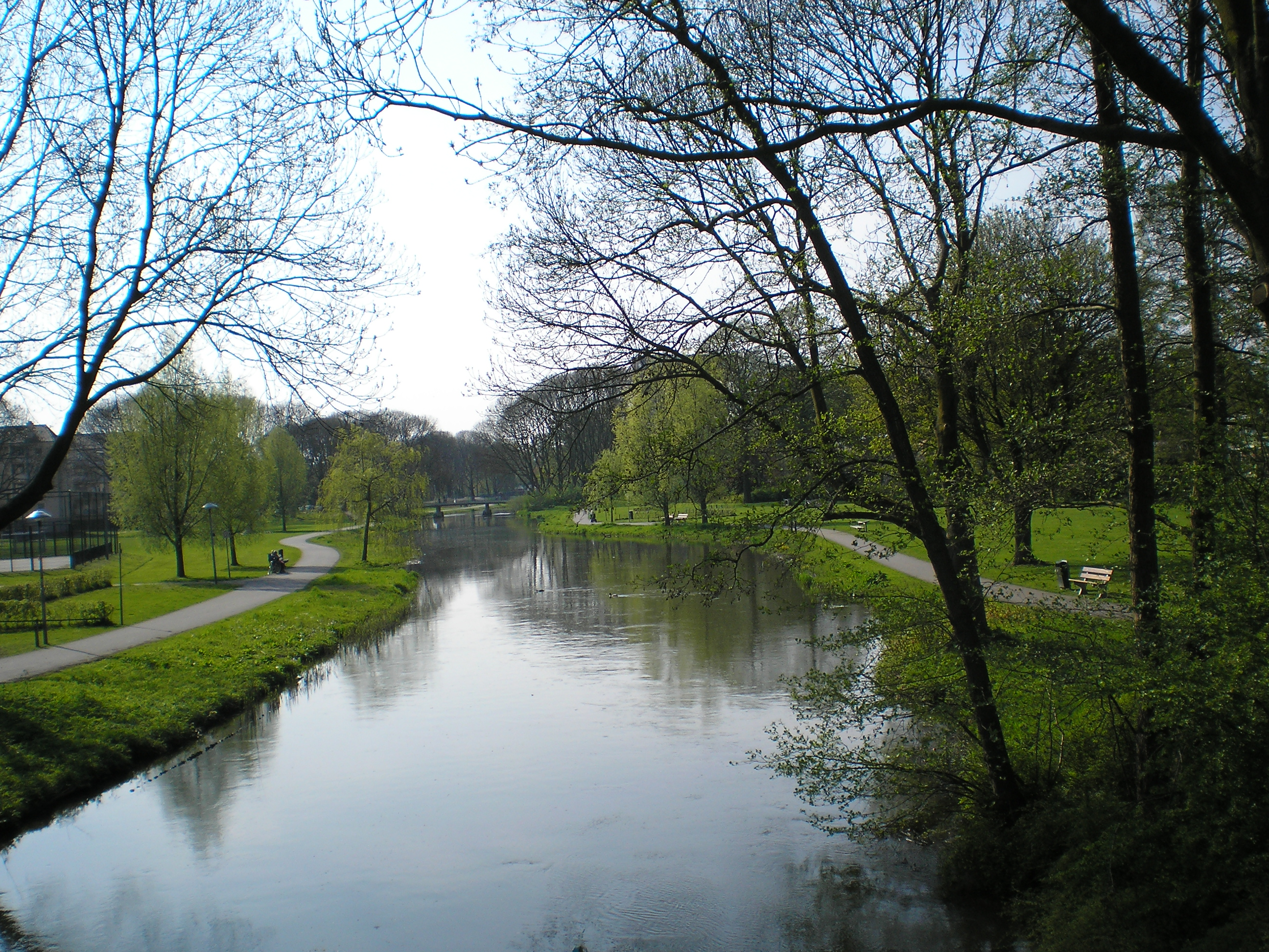 Kromme Rijn at the Tamboersdijk to Utrecht in the Netherlands